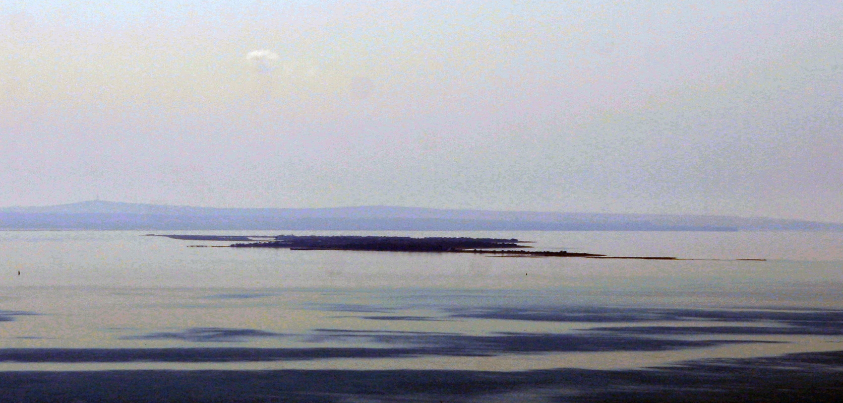 View of the Tuzla Spit from Mount Mithridat in Kerch